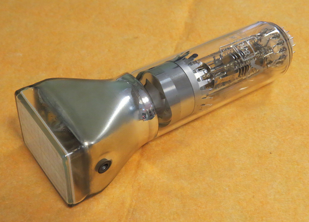 Oscilloscope cathode-ray tube